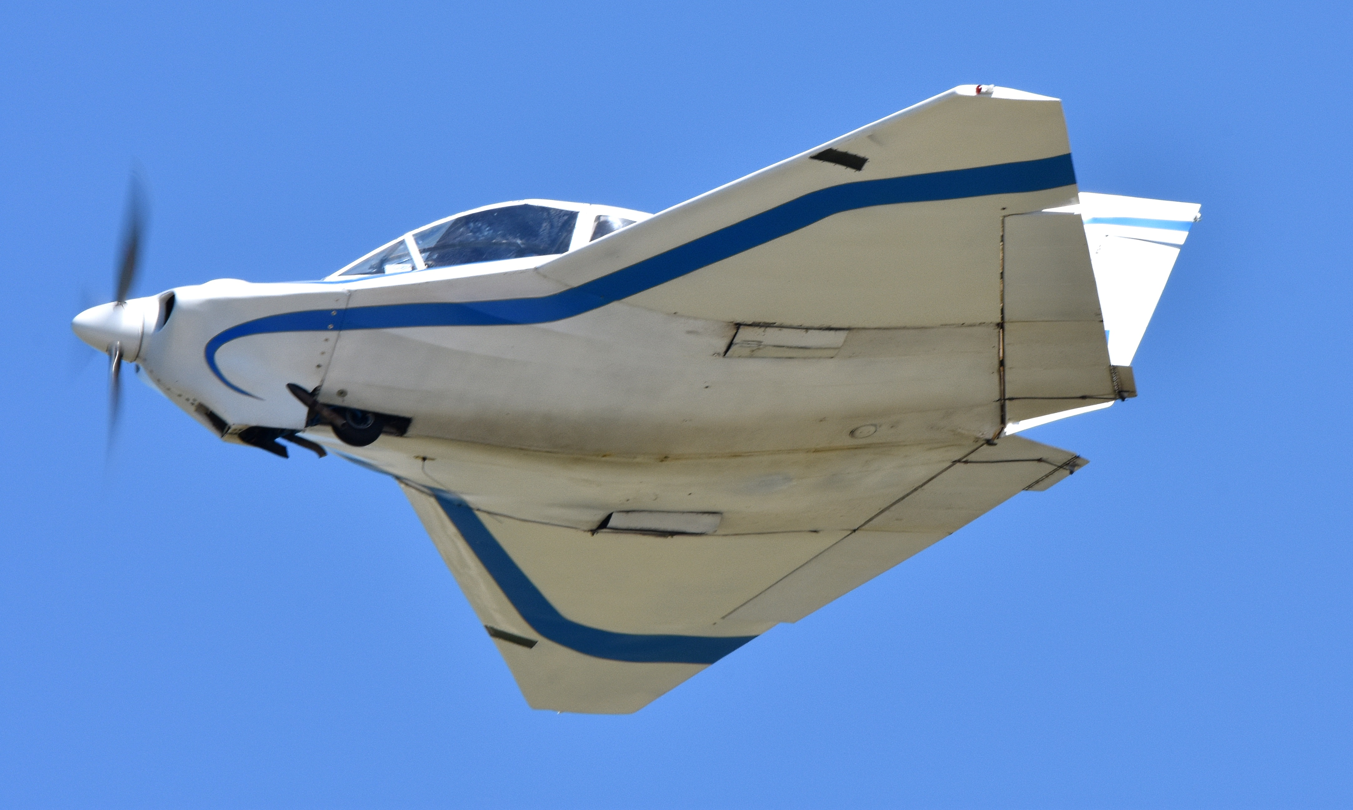 Dyke JD-2 Delta @ Oshkosh Summer 2018